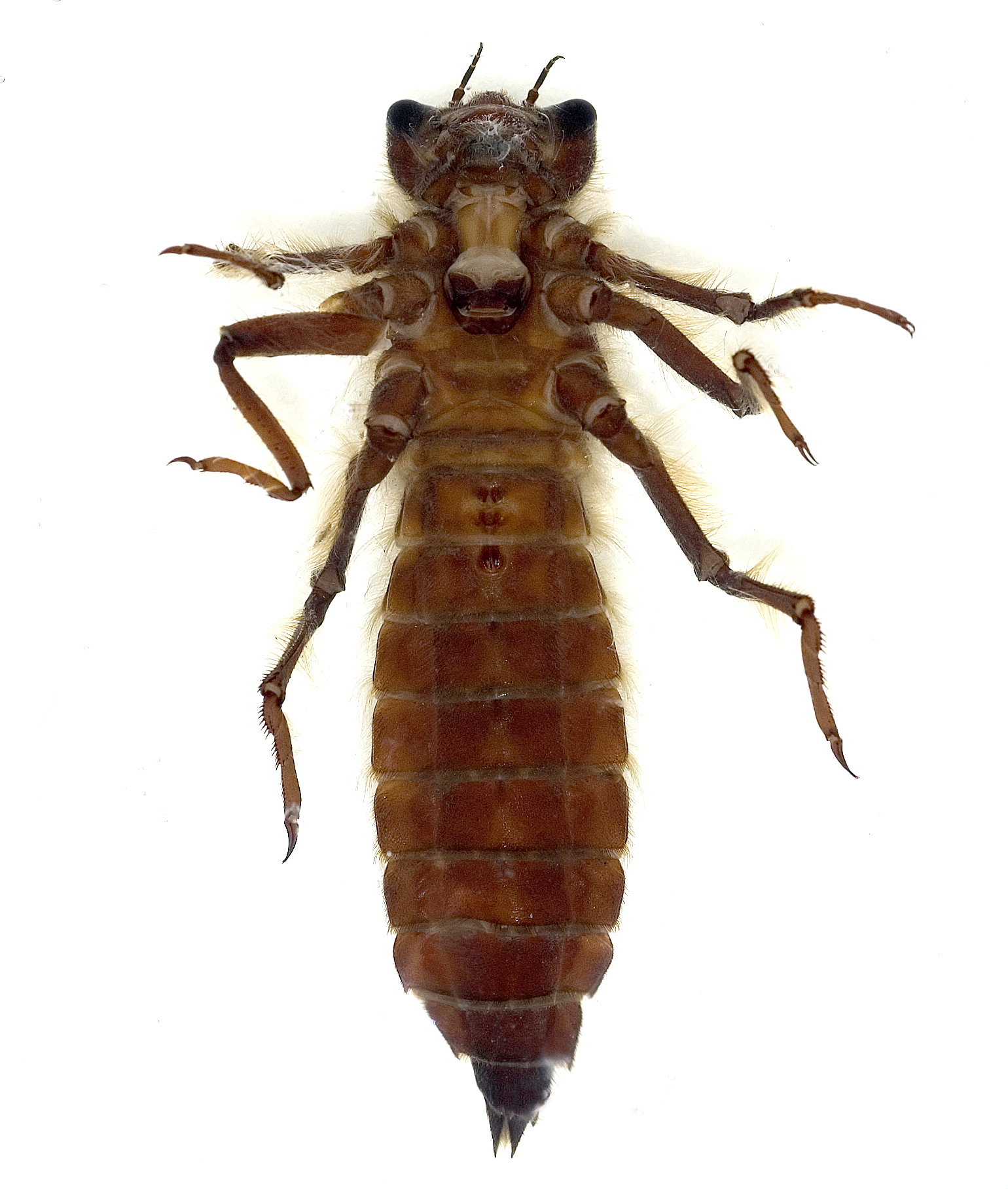 Larva of Neopetalia punctata. Verntral view.